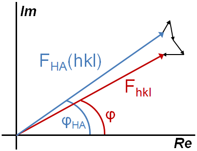 Principle of the heavy atom method in crystal structure solution: the contribution from the partial structure factor of the heavy atom (FHA(hkl)) dominates the total structure factor F(hkl) for a reflection hkl. Both structure factors are represented in the plane of complex numbers. The red vector is the total structure factor of the reflection hkl, the blue vector is the partial structure factor from the heavy atoms. The contributions from other lighter atoms are shown in black.